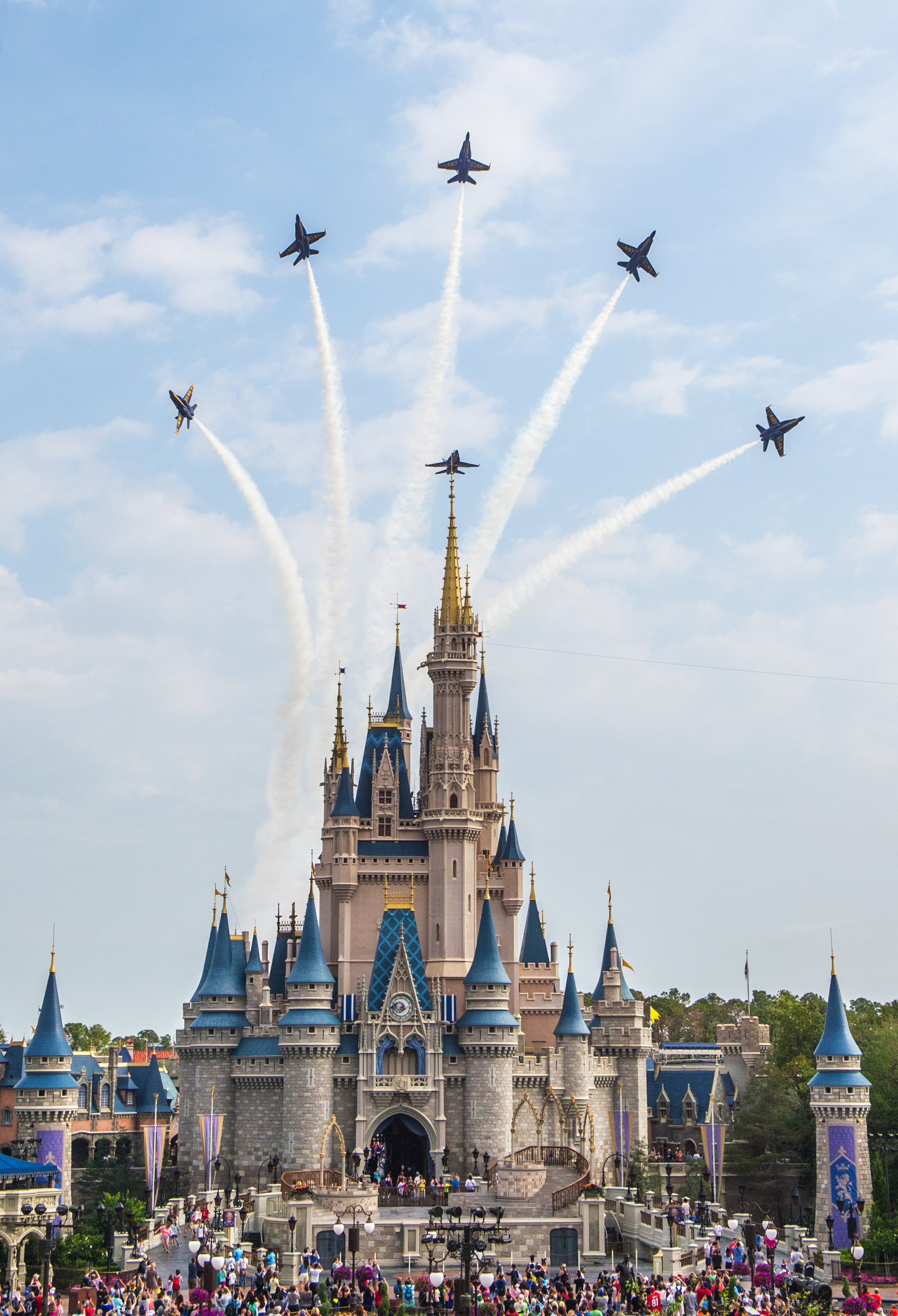 170406-N-IR734-094 ORLANDO, Fla. (April 6, 2017) U.S. Navy Flight Demonstration Squadron, The Blue Angels perform the Delta Breakout over Cinderella's Castle at Walt Disney World's Magic Kingdom en route to the Sun n' Fun Air Show in Lakeland, Florida. The Blue Angels are scheduled to perform more than 60 demonstrations across the U.S. in 2017. (U.S. Navy photo by Petty Officer 2nd Class Ian Cotter/Released)